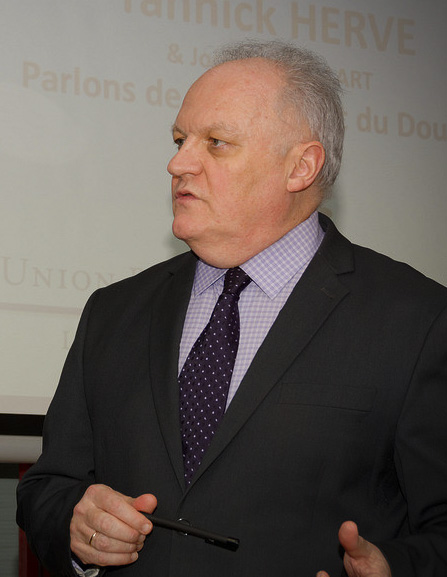 François Asselineau, French politician of the Popular Republican Union (Union Populaire Républicaine or UPR)